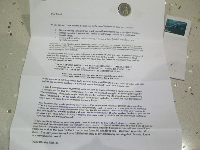 I can't believe that in this day and age, someone still believes in pyramid scheme chain letters! Each recepient is supposed to send $10 to the the person at position number 1, move the next 4 people up the list, and add yourself to number 5. You can supposedly make $70k! I supposed that 5 cent coin is supposed to be proof?!